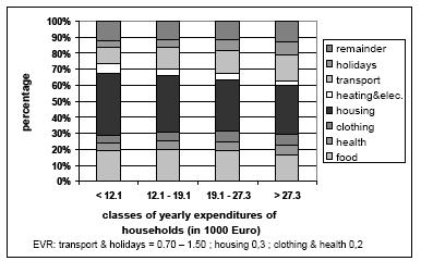 consumer spending NL